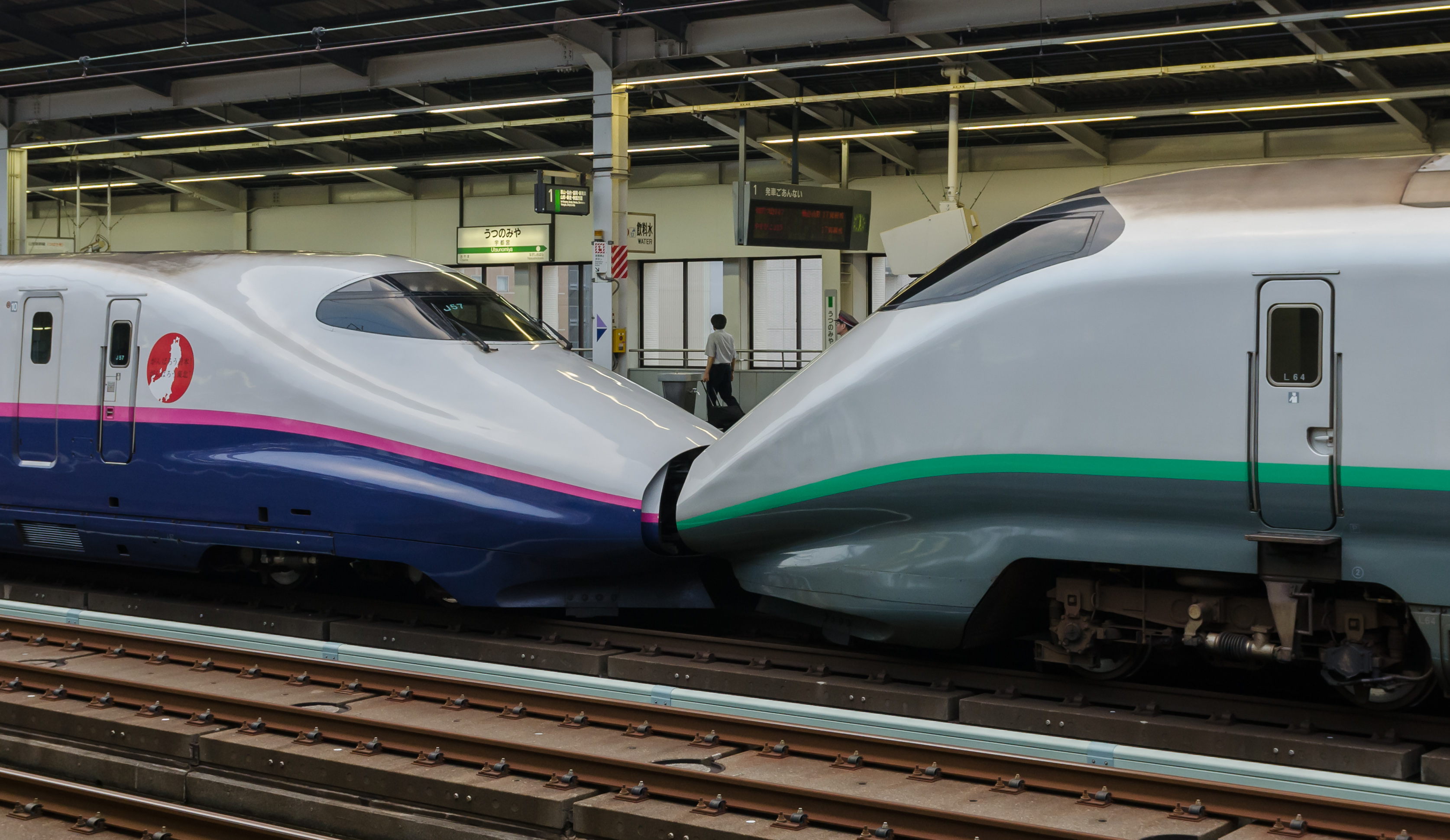 Two Shinkansen trains at Utsunomiya Station operating in multiple-unit train control. Notably, the two trains are different series: On the left, a E2 Series, on the right a E3-2000 Series.